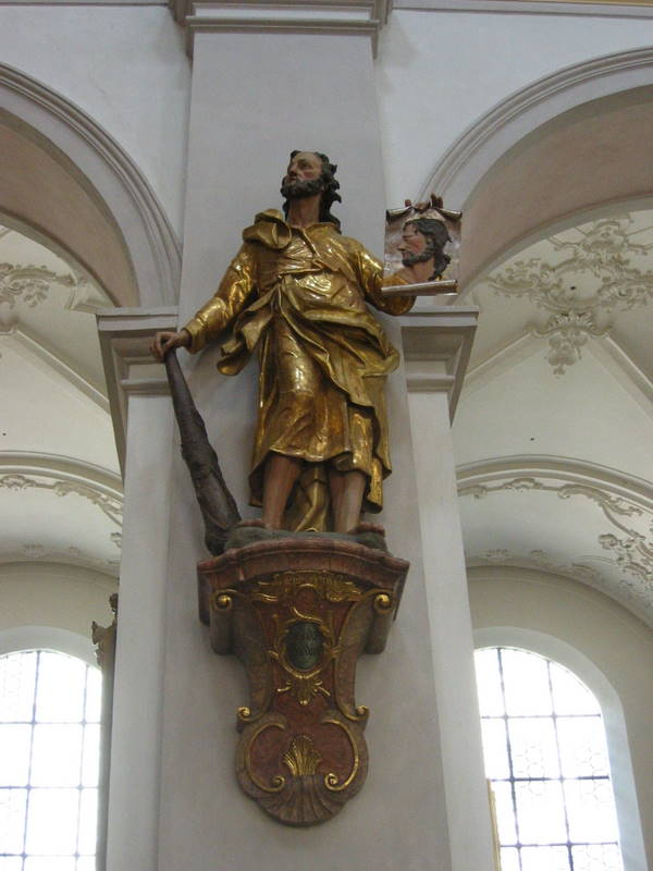 Judas Thaddäus